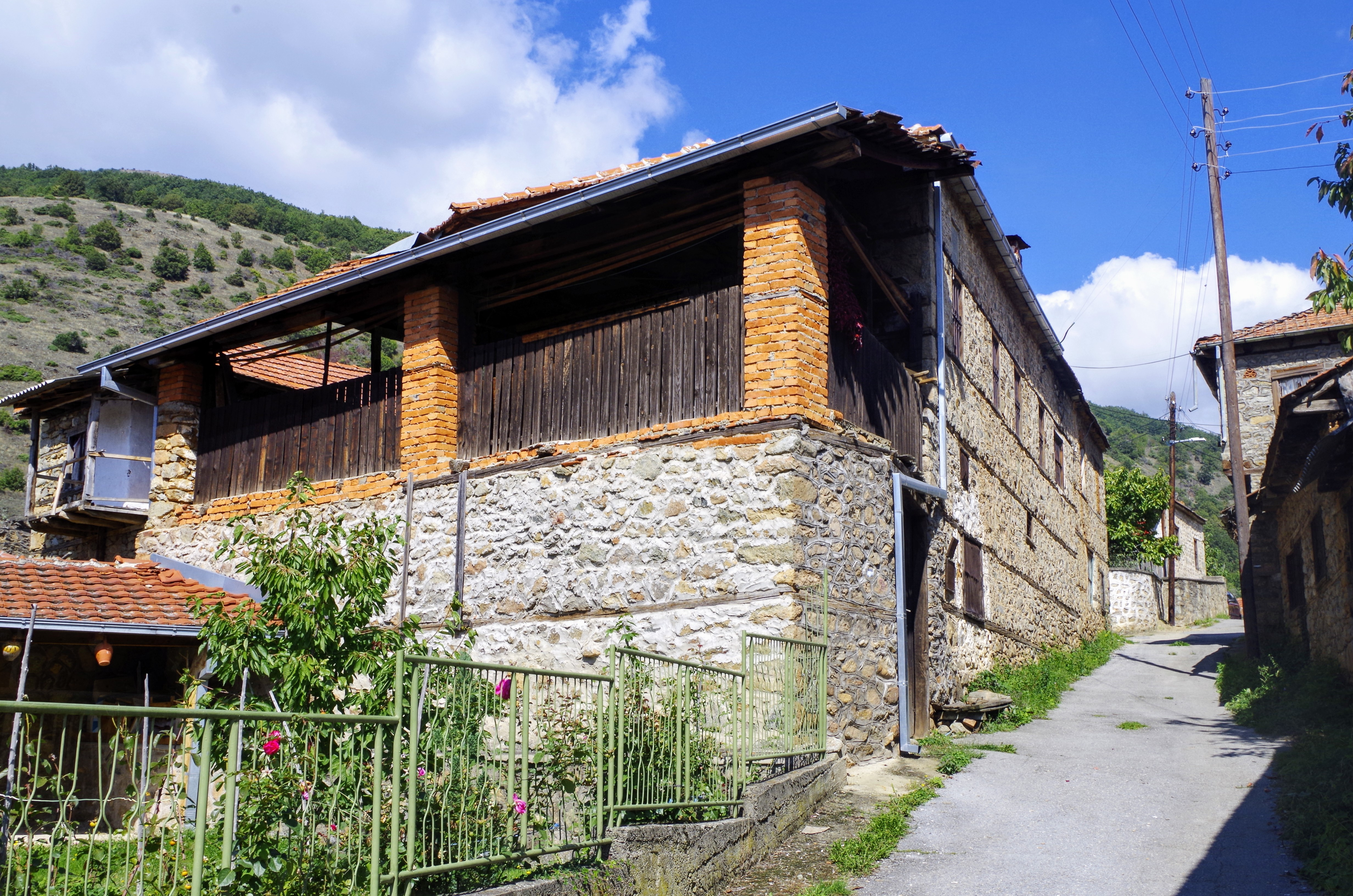 View of the old houses in the village Brajčino